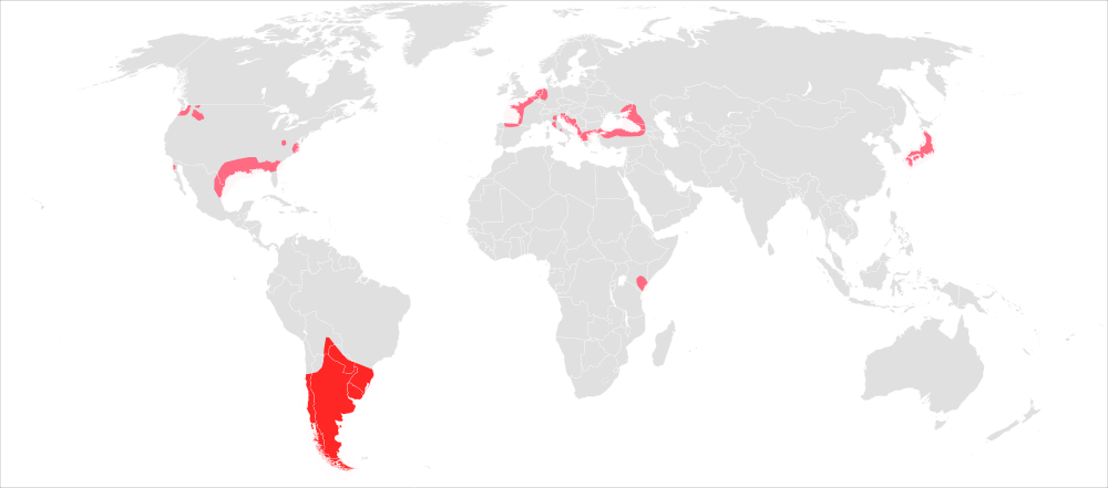 Range of coypu (Myocastor coypus): red original range; pink introduced.